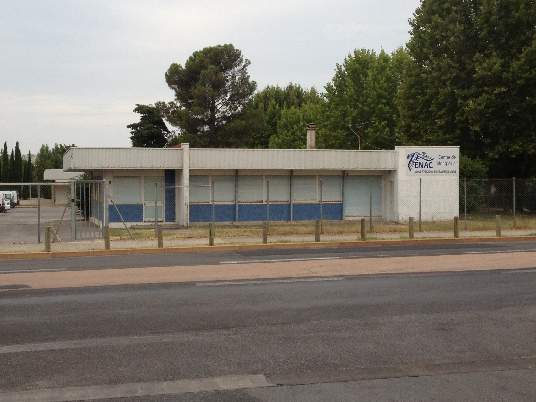 French Civil Aviation University (ENAC), Montpellier campus